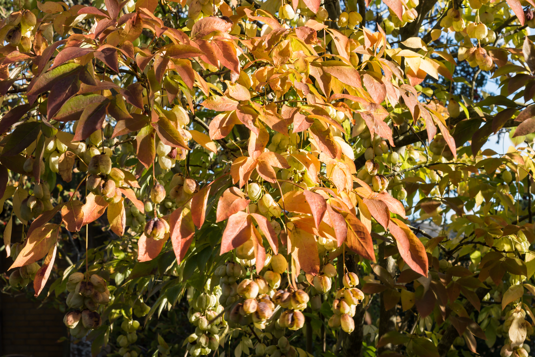 Staphylea pinnata: Autumn colours.